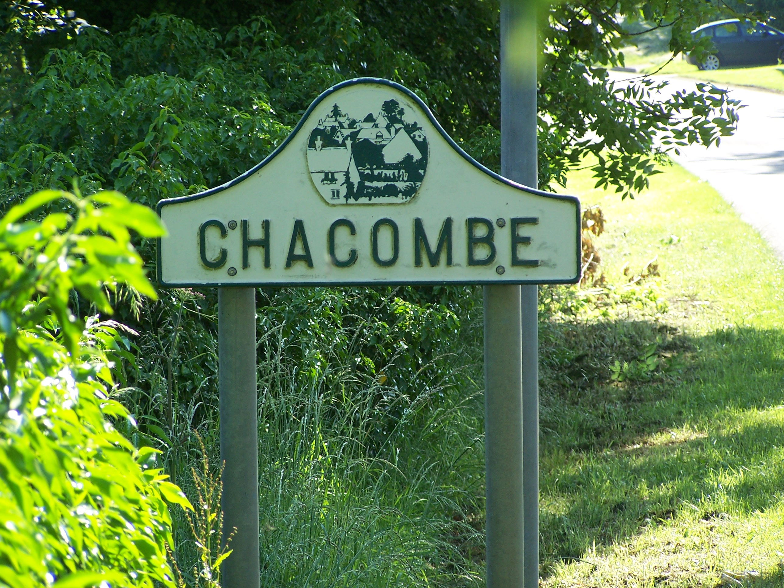 Village sign at Chacombe, Northomptonshire